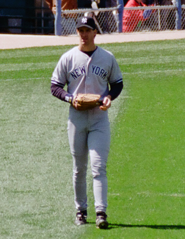 Paul O'Neill at New Comiskey Park, 1996.